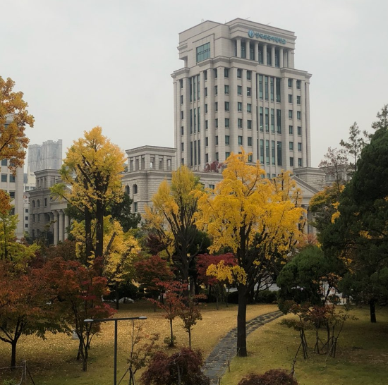 Hufs Campus Fall 2018